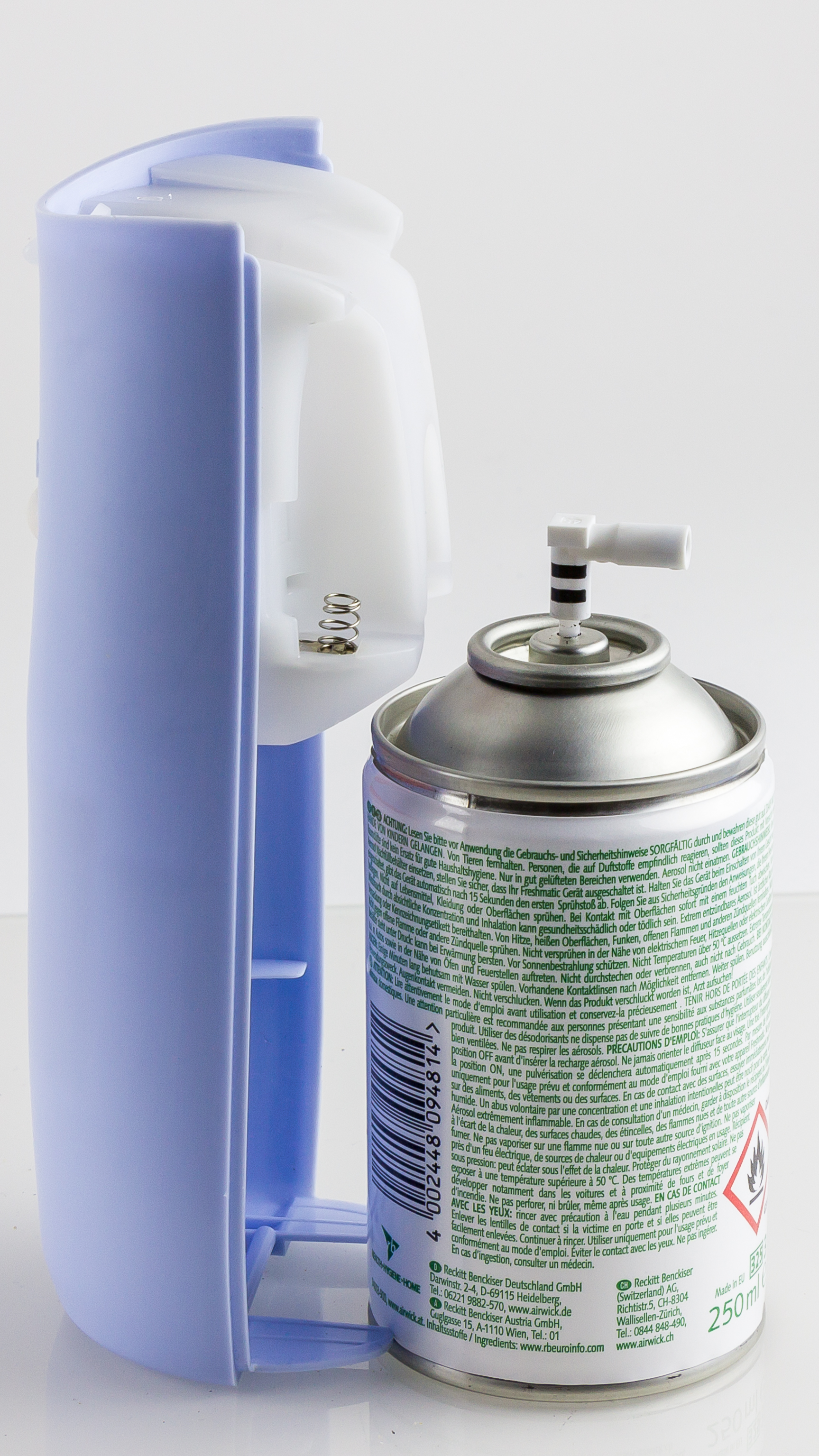 Air Wick automatic air freshener